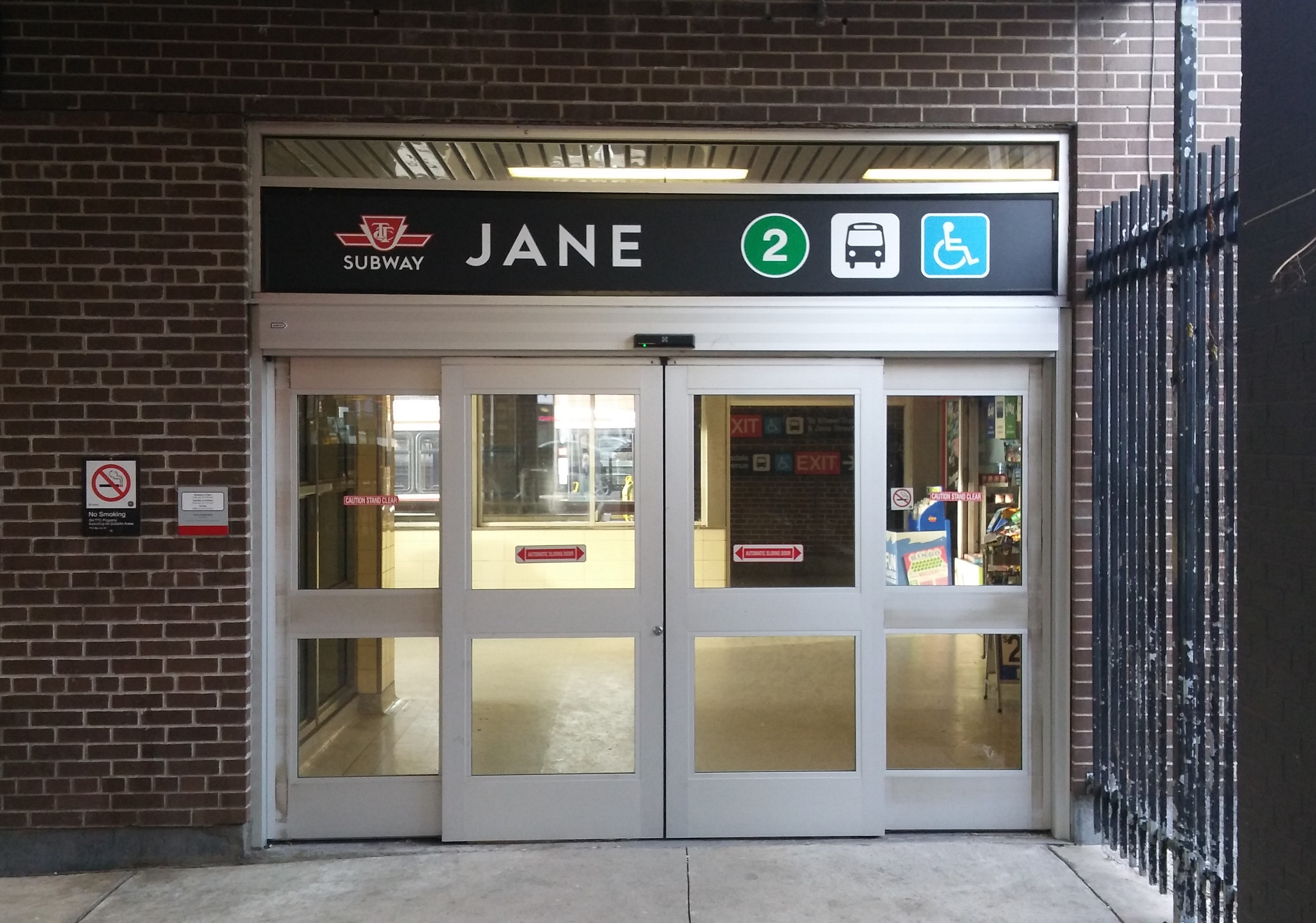 One of the entrances to the Jane subway station, which is in Toronto, Canada.